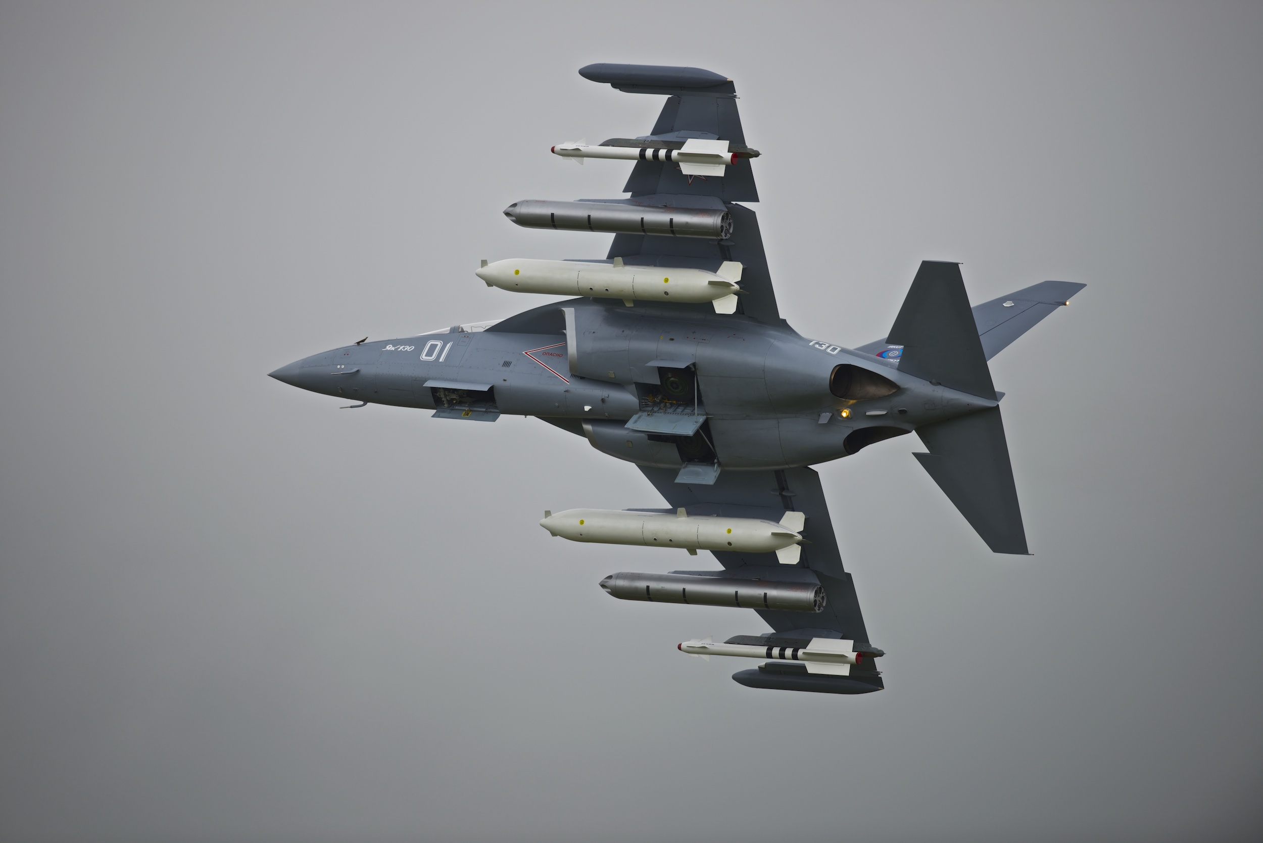 Royal International Air Tattoo 2012